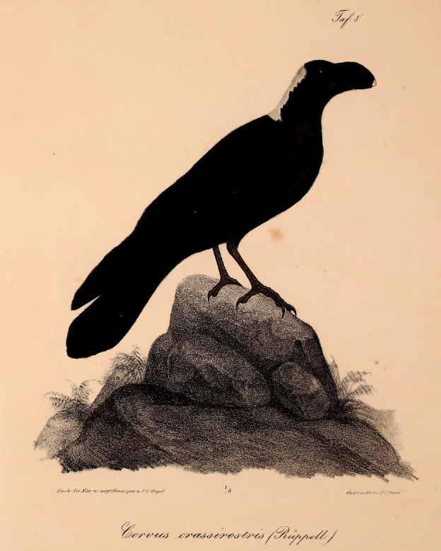 Engraving of thick-billed raven.